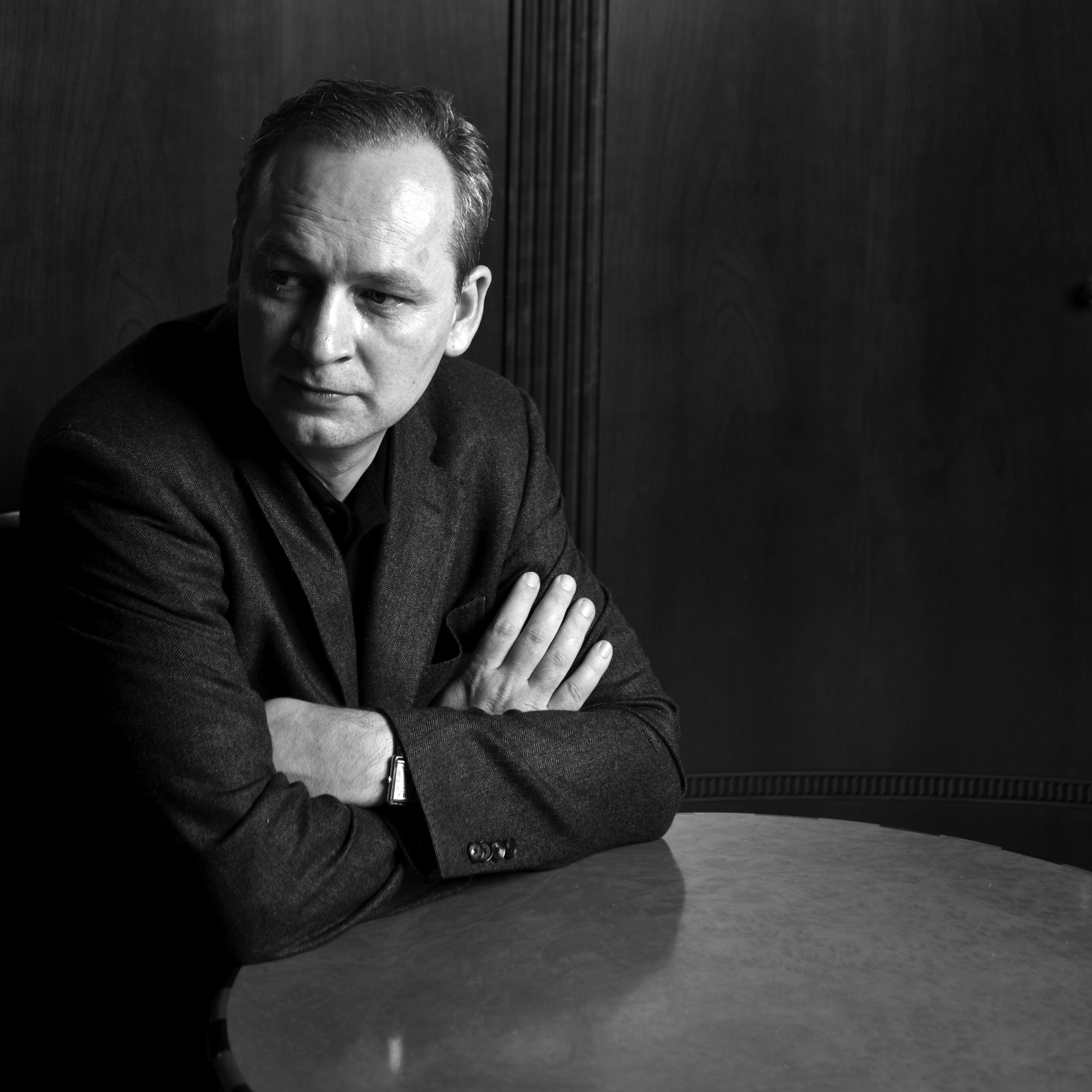 German lawyer and writer Ferdinand von Schirach